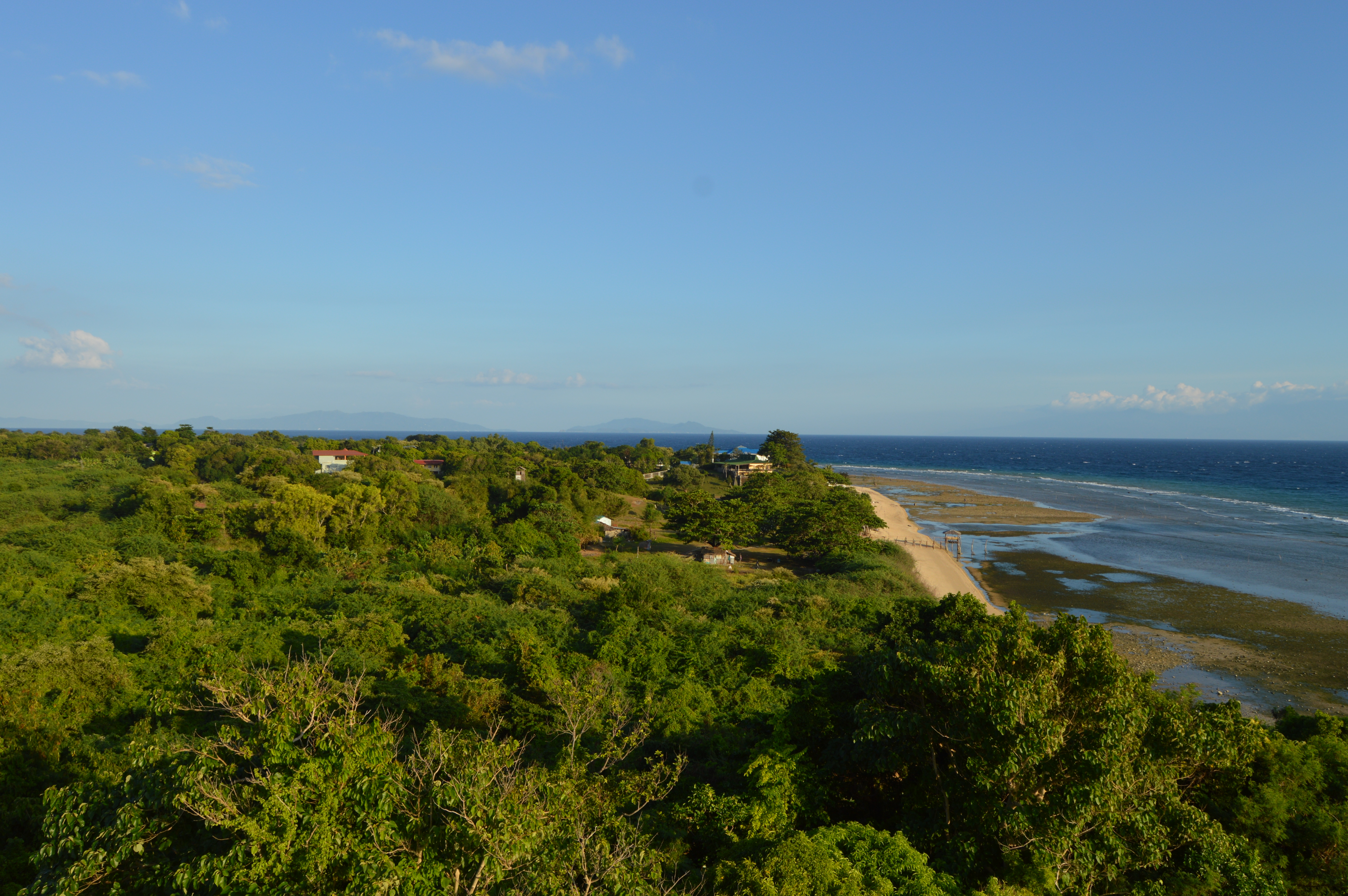 View of the surrounding landscape from atop the Cape Santiago Lighthouse in Calatagan, Batangas, Philippines. The landscape shown is to the east of the lighthouse and shows the silhouette of Maricaban Island (left) and Mindoro Island (right) as well as Verde Island Passage (right).